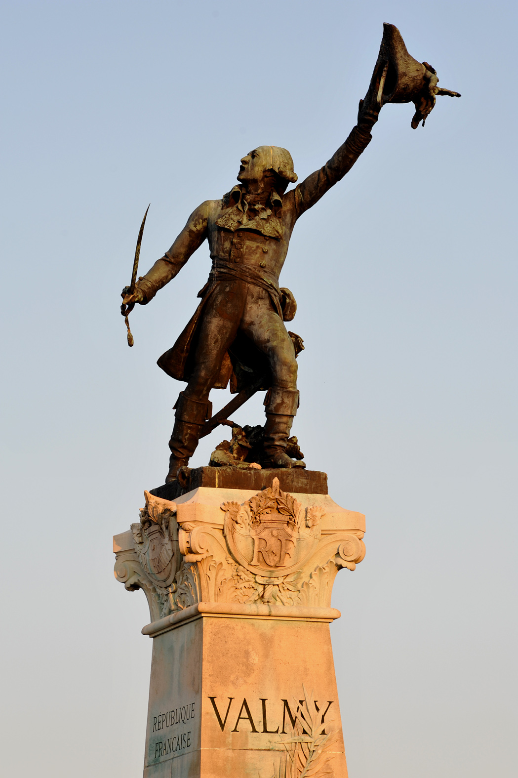 Monument of Marshal François Christophe Kellermann in Valmy; Marne, France.